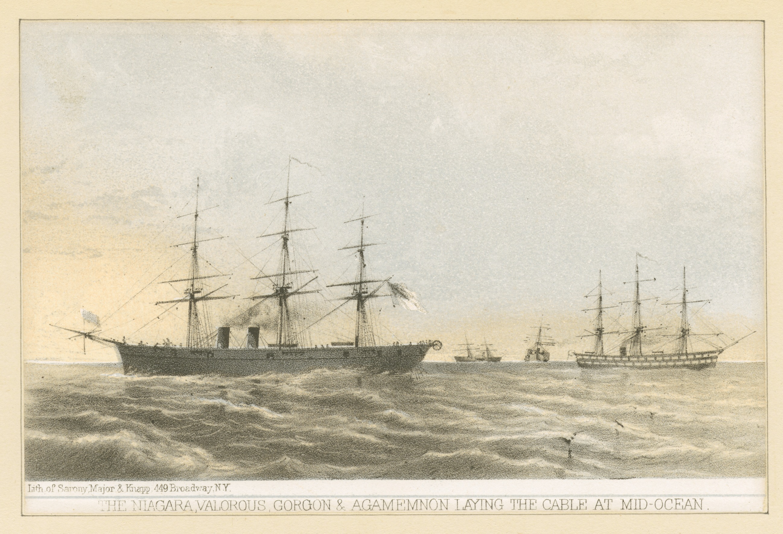 Title from Calendar of Emmet Collection. EM11815 Statement of responsibility : Sarony, Major & Kna